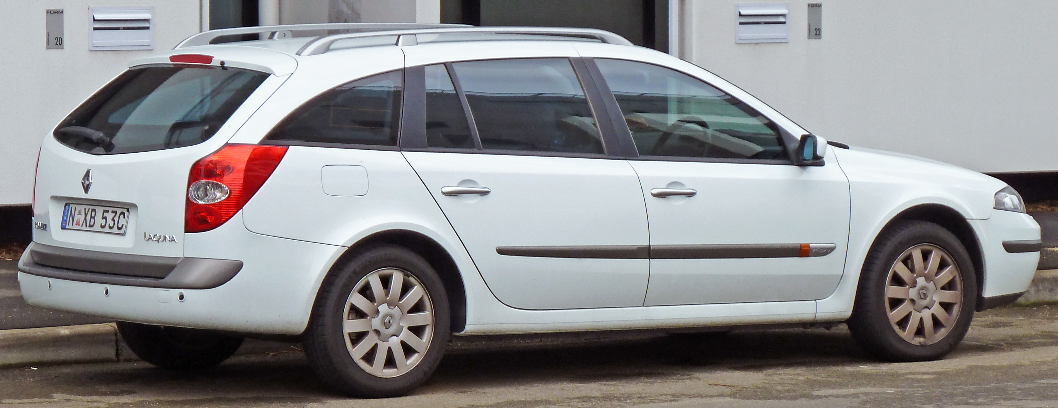 2002 Renault Laguna (X74) Privilege station wagon. Photographed in Zetland, New South Wales, Australia.